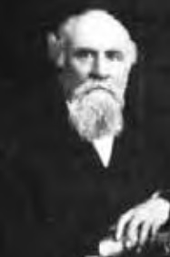 Cropped 1890 image of California Supreme Court Justice John R. Sharpstein